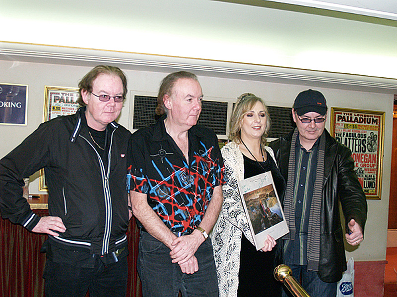 Clannad in London